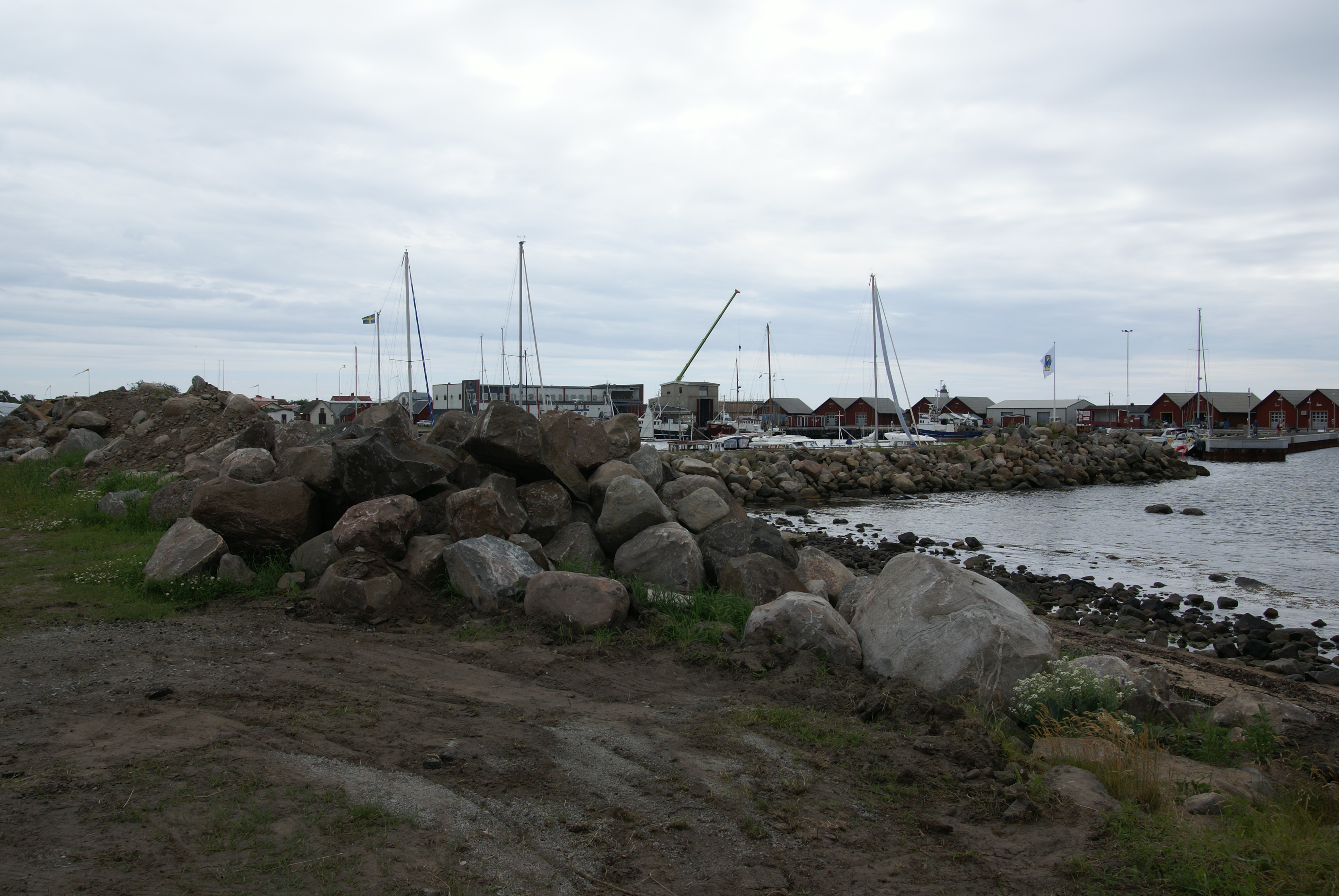 Glommen with dump destroying the idyllic harbour.